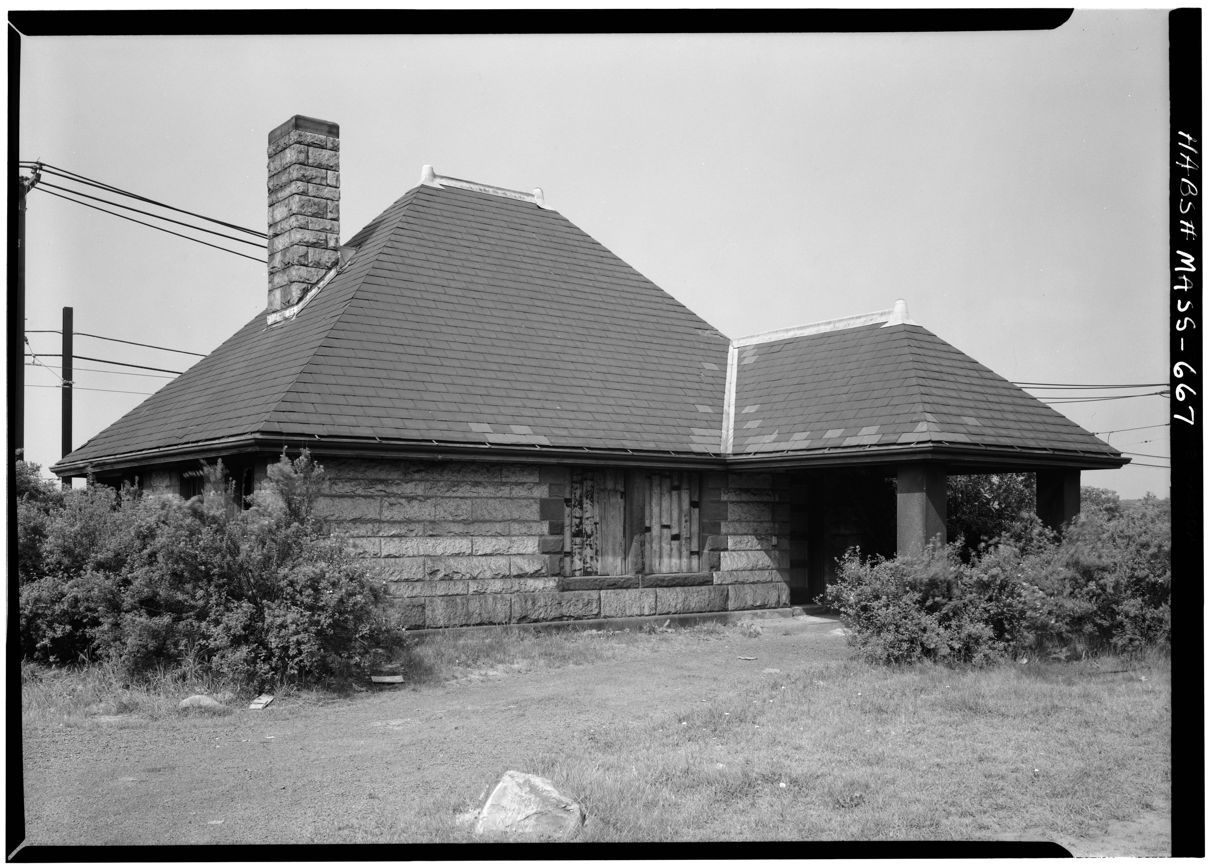 Former Woodland station on the Boston & Albany Railroad's Highland Branch at 1897 Washington Street, Newton, Massachusetts. This is the northwest elevation photographed in July 1959, a year after the station closed for the line to be converted to high-frequency streetcar service and a month before the new service began. This station was not reused due to its proximity to the moved Riverside station; a new Woodland station was built several hundred feet to the southeast.